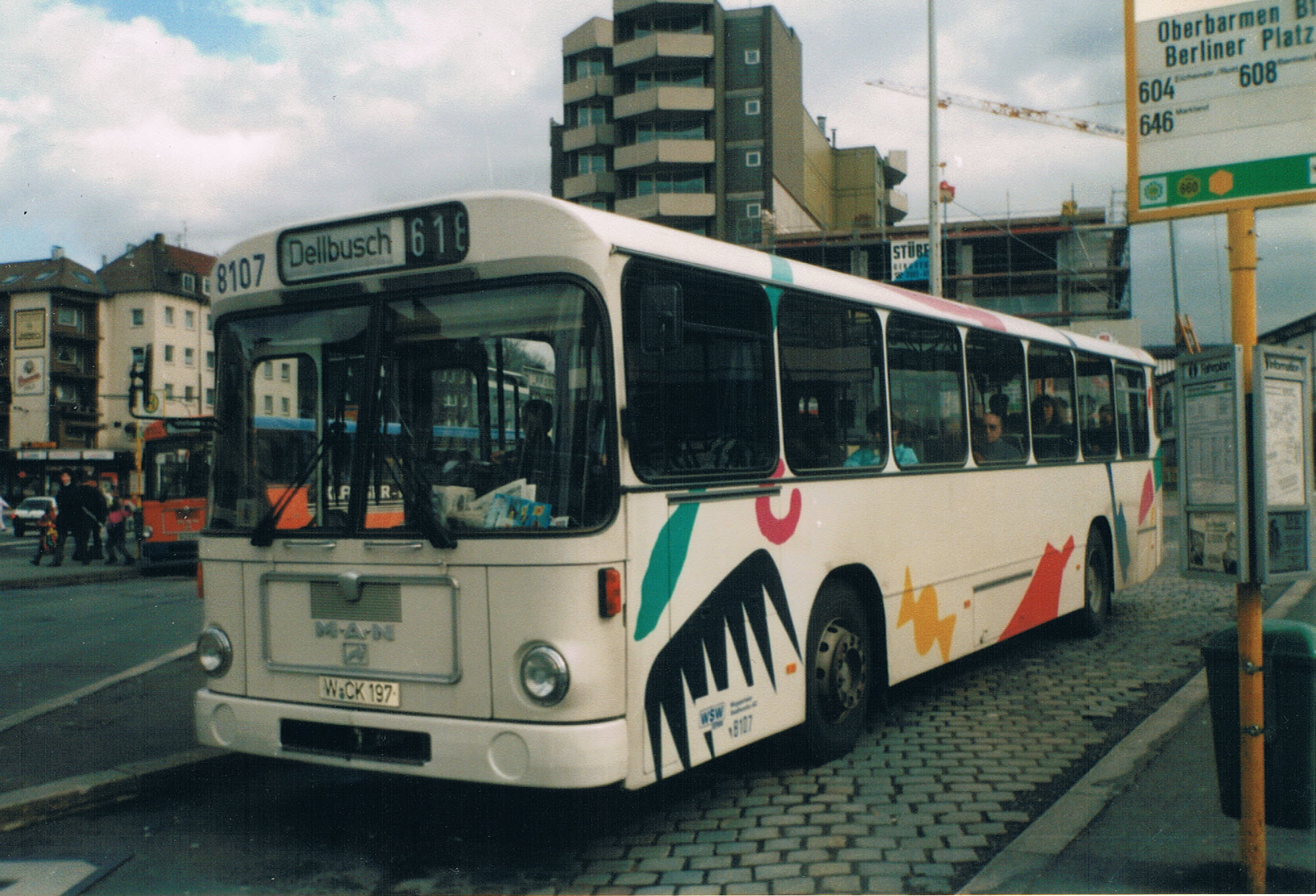 Bus line 618 resting at the old bus station "Oberbarmen Bahnhof / Berliner Platz". Years later, this place has been build to a station forecourt for passengers and the bus stops have been moved between the Schwebebahn and train station Image taken in spring 1994